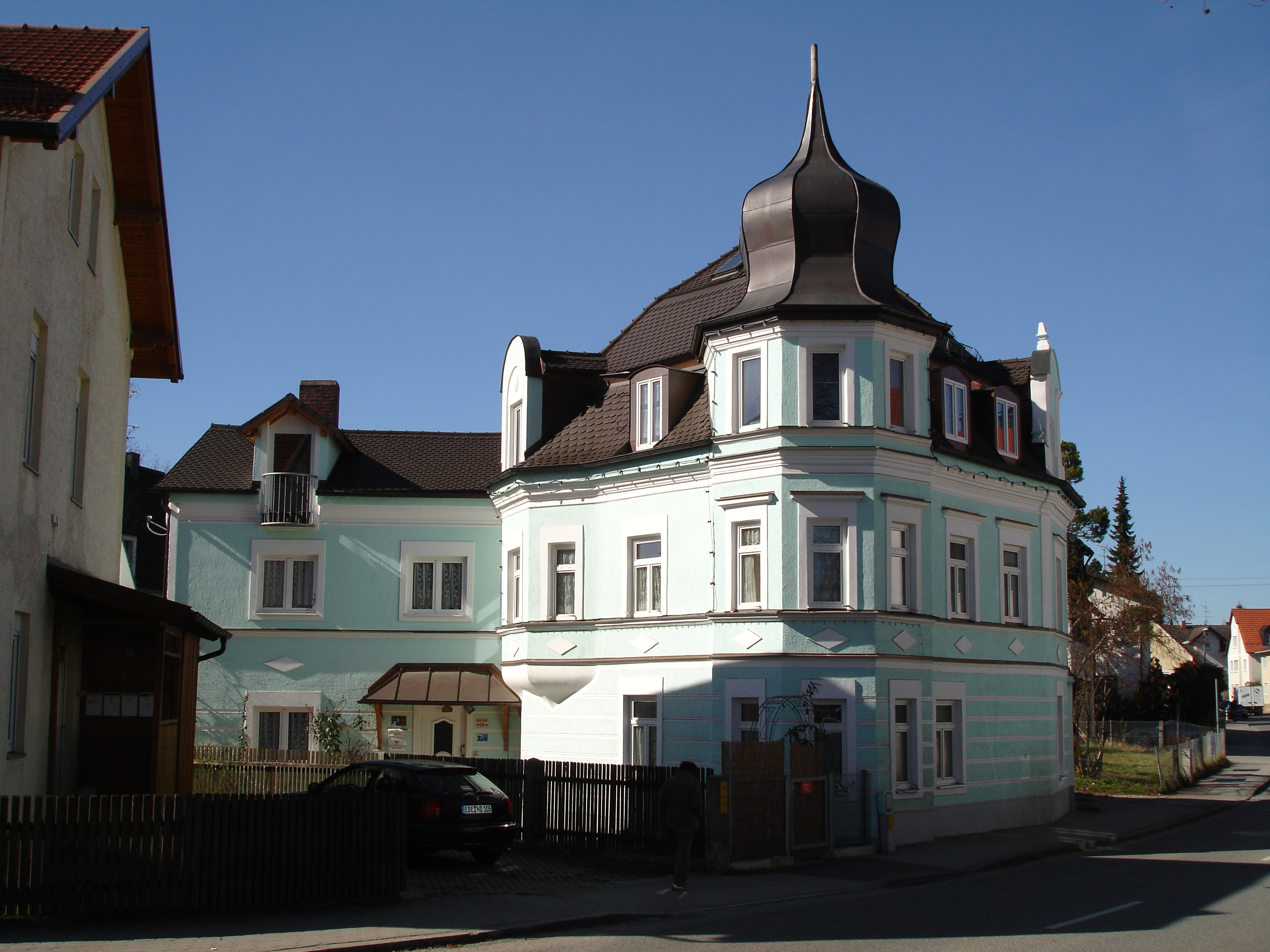 Pritzl House, Markt Schwaben, county Ebersberg, Bavaria, Germany